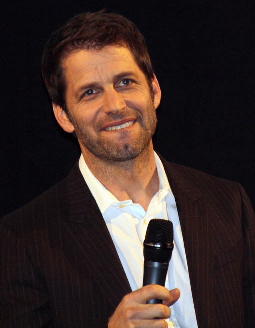 Zack Snyder at a premiere for Sucker Punch in March 2011